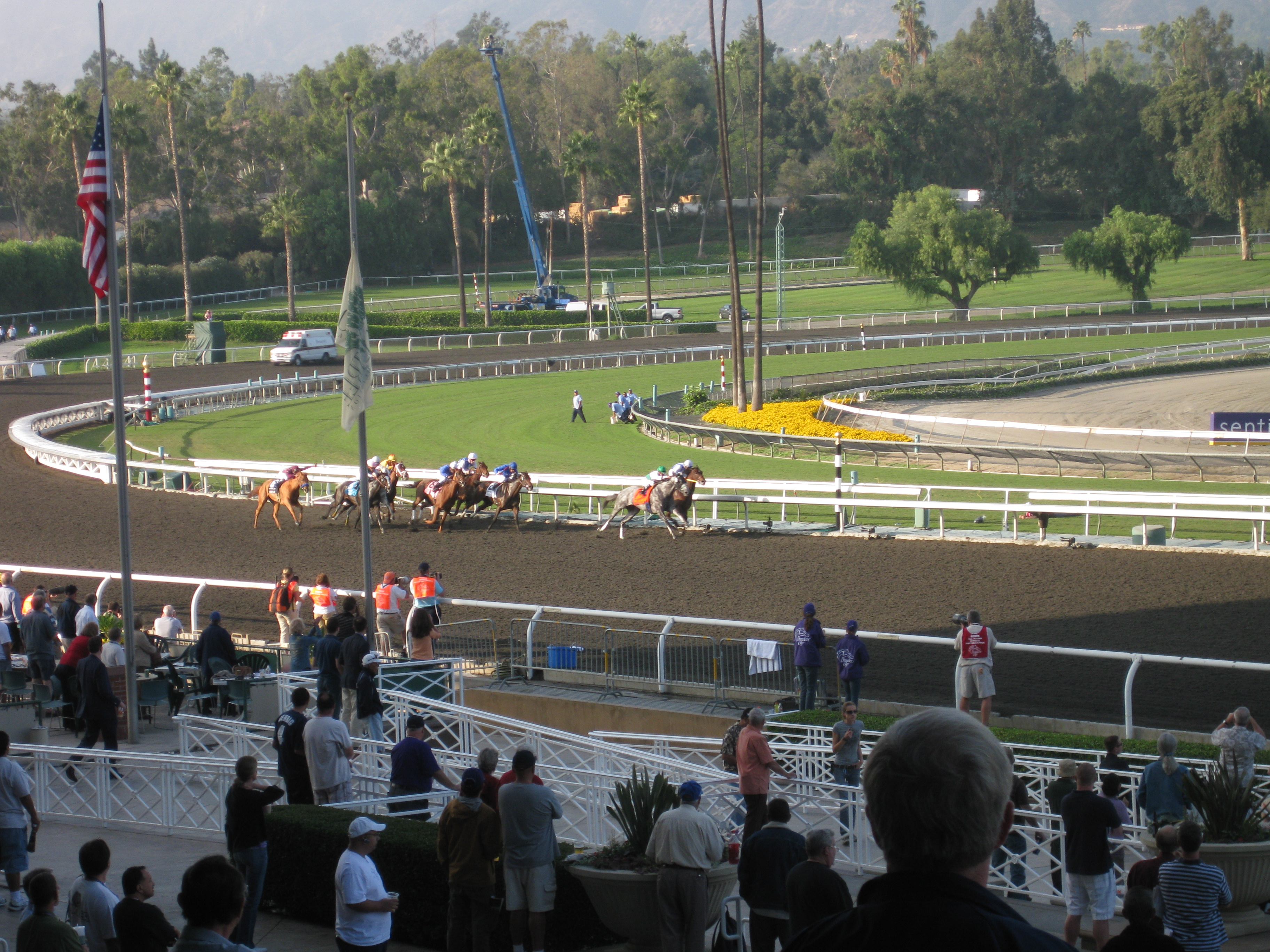 Effortlessly uploaded by Eye-Fi Breeders' Cup 2009